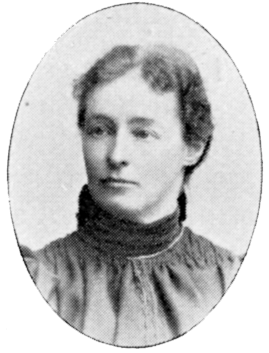 Image scanned from the book "Svenskt Porträttgalleri XX - Arkitekter, Bildhuggare, Målare m.fl. " ("Swedish Portrait Gallery XX - Architects, Sculptors, Painters, ") published 1901